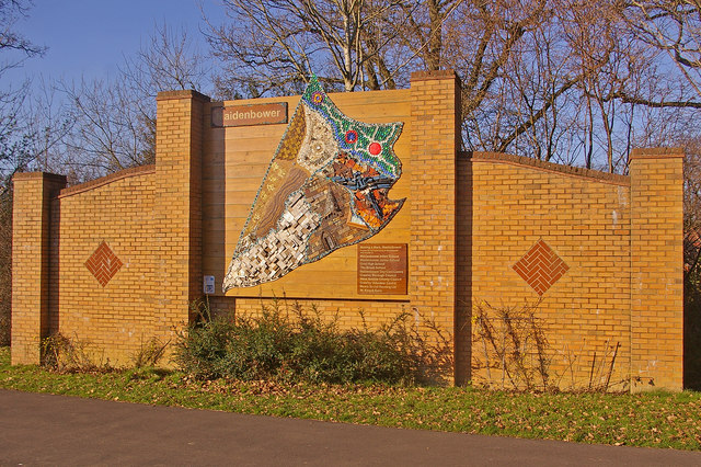 Maidenbower sign Mosaic sign representing the 1990s development of the Maidenbower district of Crawley, stiuated on the roundabout where Maidenbower Drive leaves Balcombe Road. It was installed in September 2006, having been created in five pieces, four of them by the four schools in the neighbourhood and the final piece by the community, as a piece of public art.